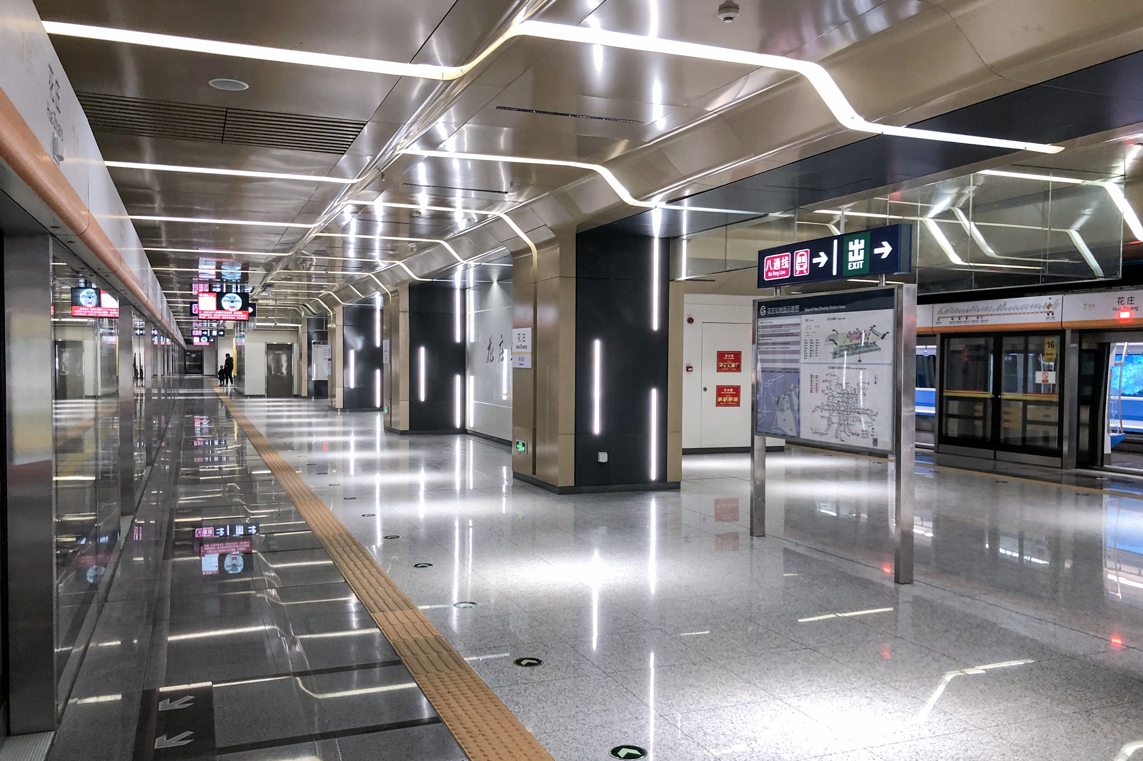 Also terminus before the opening of Universal Resort.